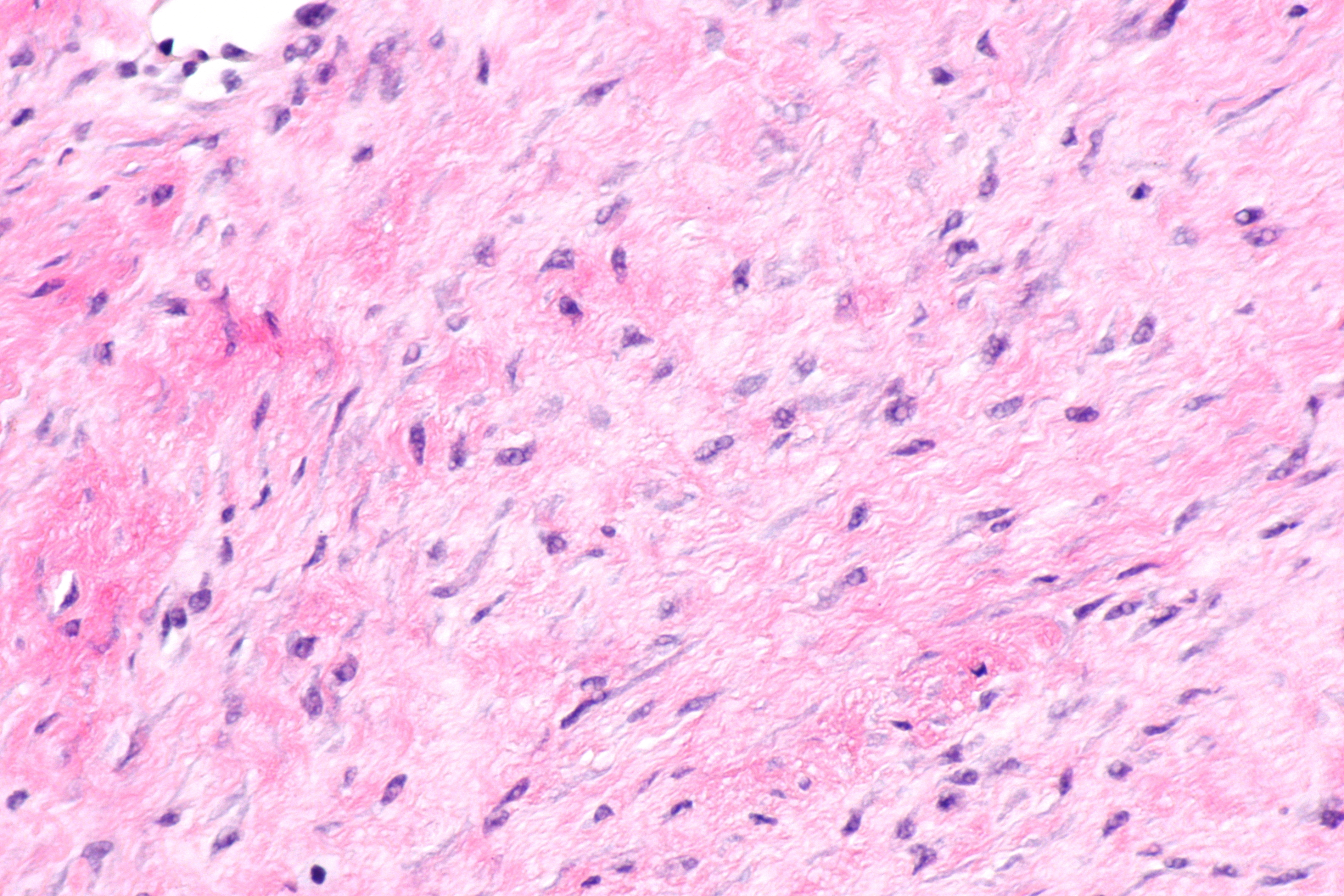 Micrograph of a desmoid tumour. H&E stain/Beta-catenin IHC. Related images DT - very low mag. DT - low mag. DT - intermed. mag. DT - intermed. mag. DT - high mag. DT - very high mag. DT - intermed. mag. DT - high mag.